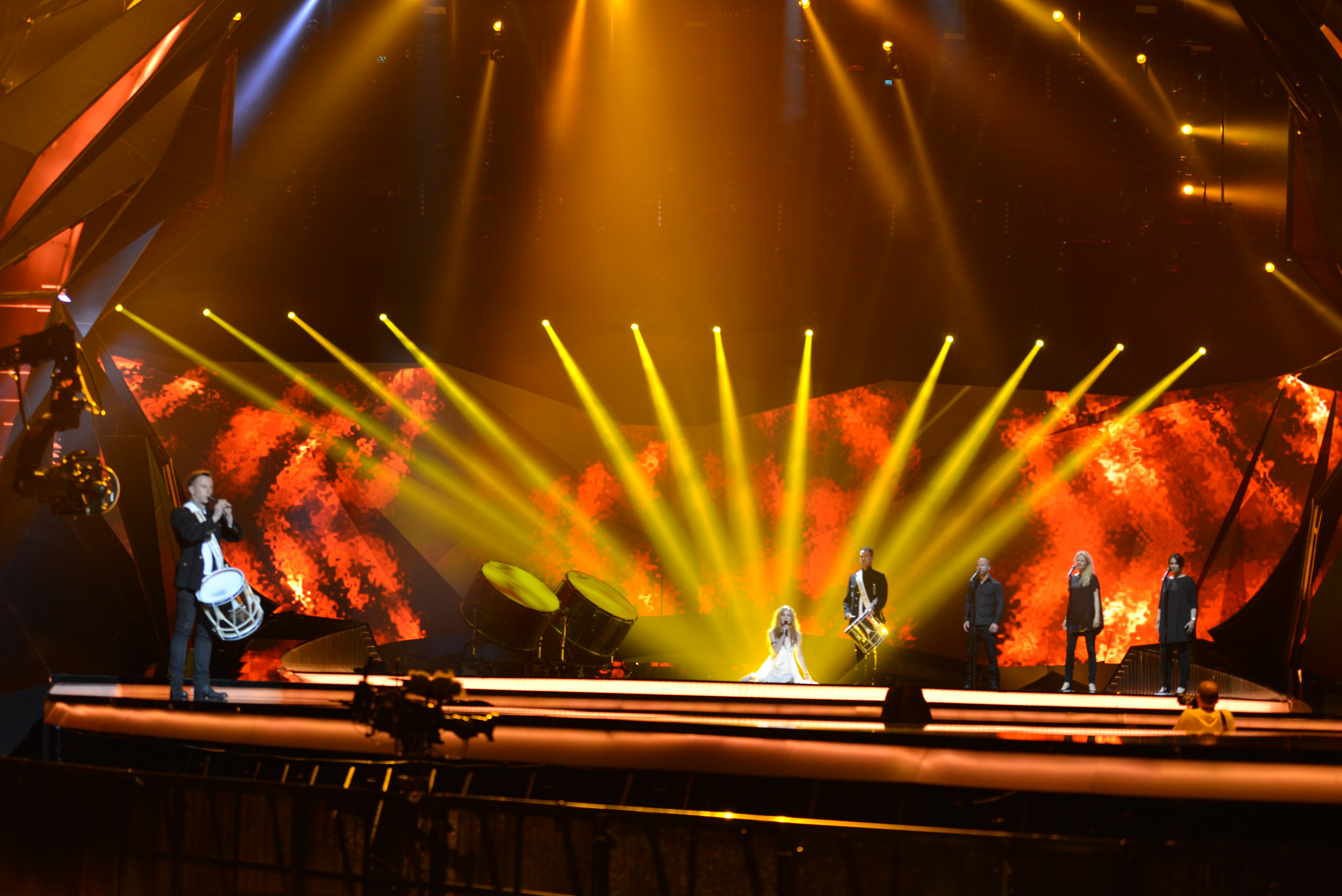 Emmelie de Forest representing Denmark with the song "Only Teardrops" during the first dress rehearsal of the first semi final of the Eurovision Song Contest 2013 in Malmö. (Help translate this text)